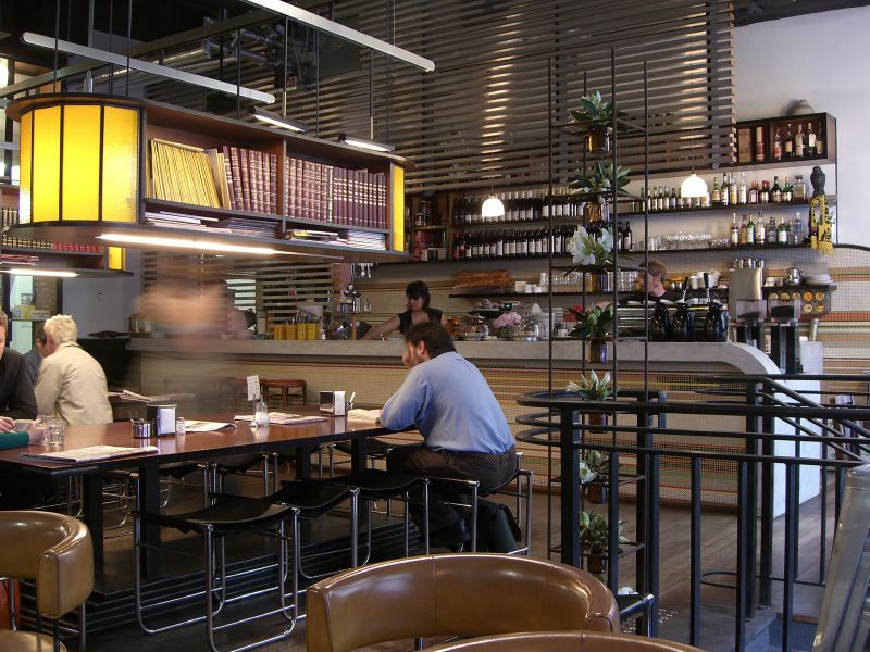 Journal Cafe- Melbourne City Library